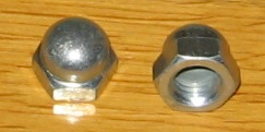 two acorn nuts